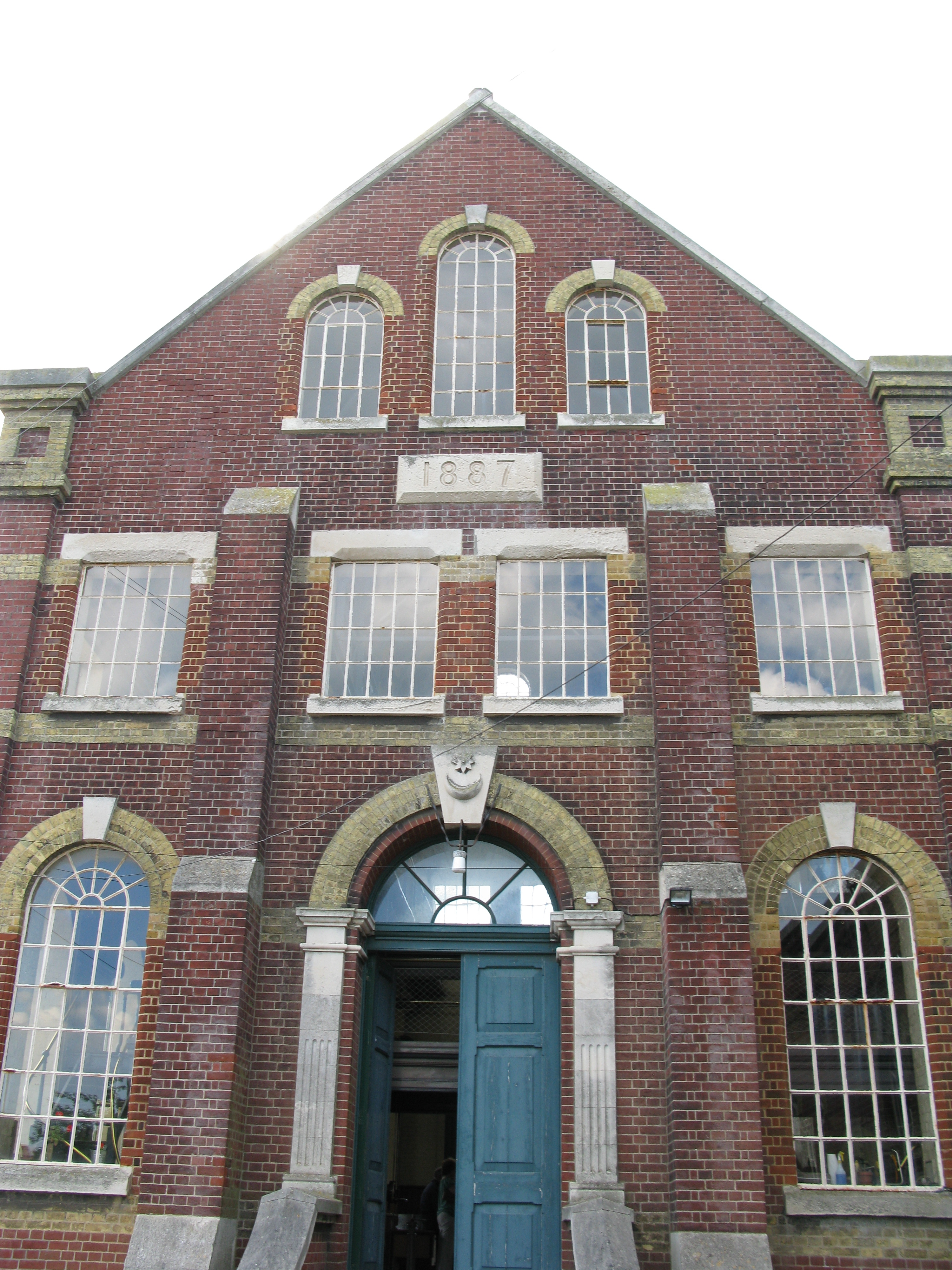 Photo of the front of Eastney beam engine house